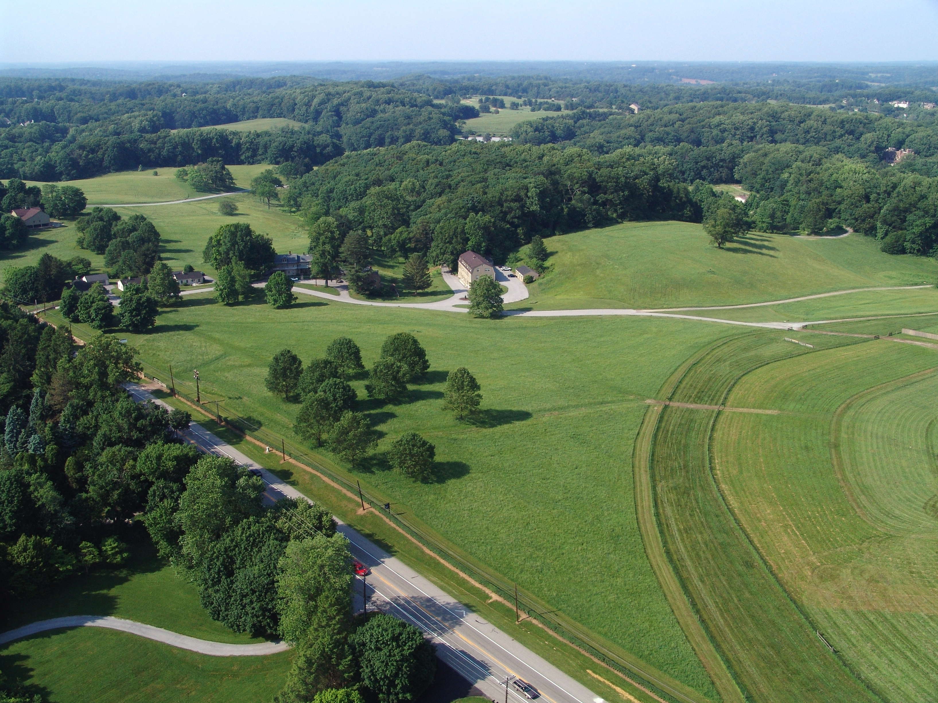 Chateau Country, a Spectacular Brandywine Valley Landscape - The Brandywine Valley Scenic Byway gently cuts through the rolling hills of the piedmont landscape along Route 52 looking toward Route 100 at Winterthur between Greenville and Centreville, Delaware. Declared Public Domain at above website of Federal Highway Administration. Click photo for info. Public domain. Photo by Rick Darke